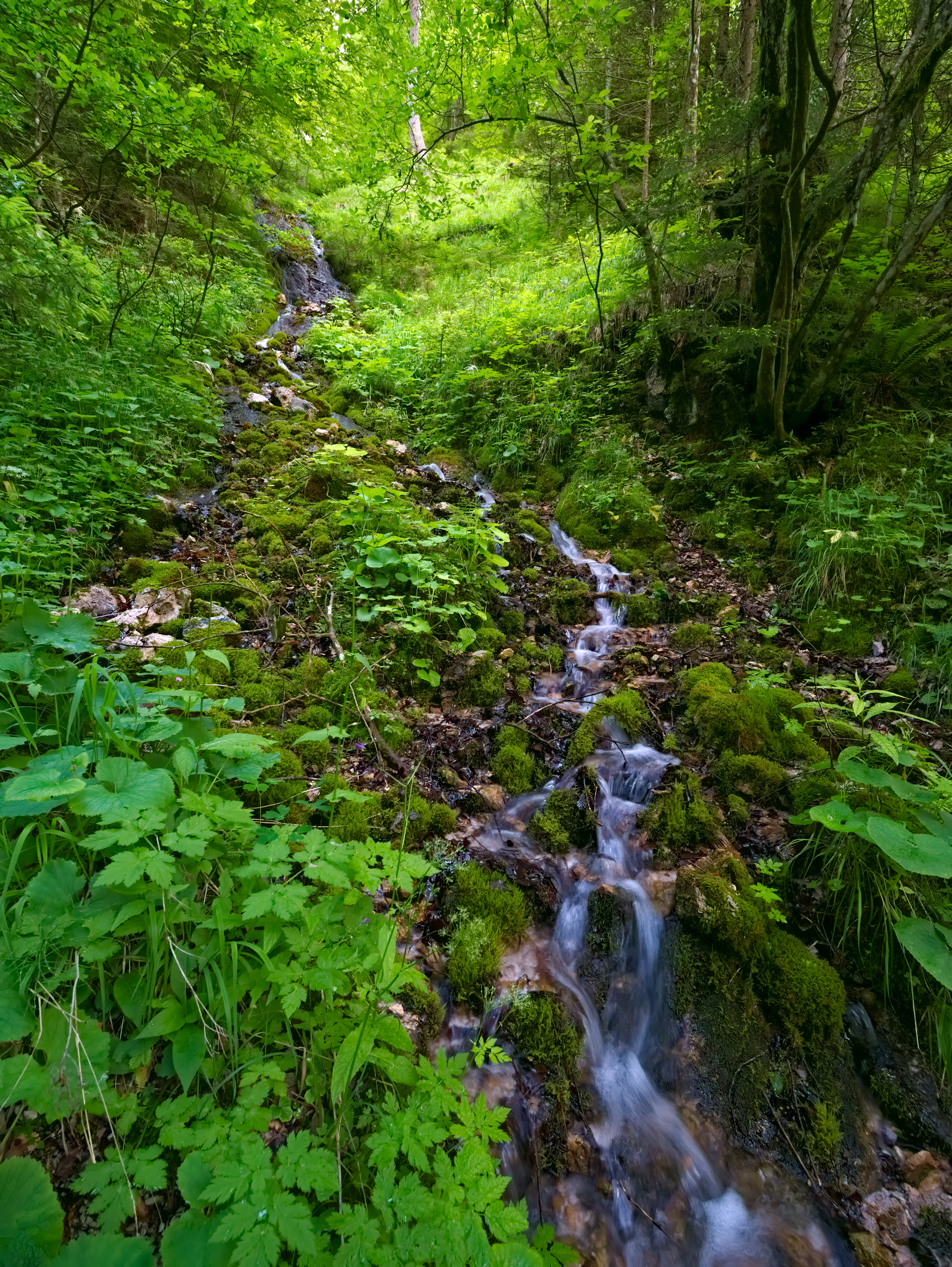 This is a small stream in a forst in Hieflau, Austria. The source is just a couple of metres above the upper edge of the view. It is a tributory to Randlseggbach, which itself flows into Enns in Hieflau.